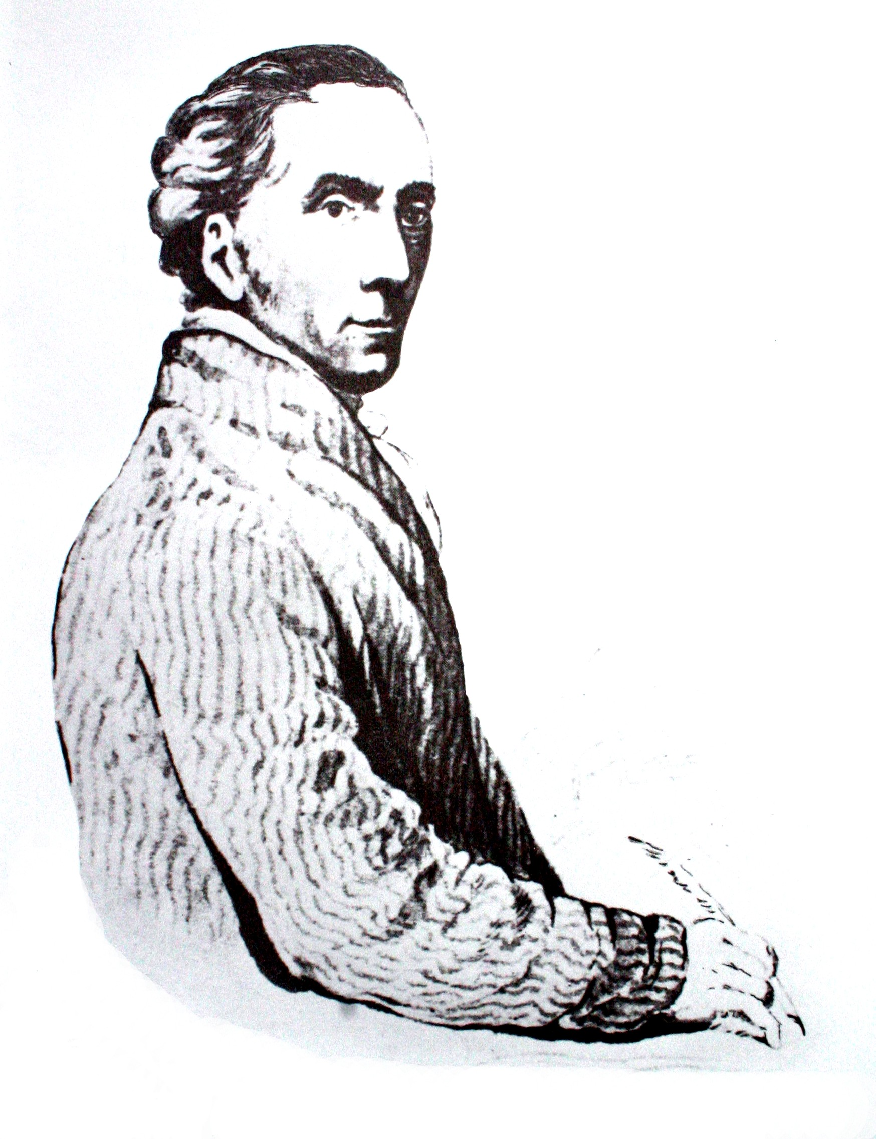 Drawing of Louis Michel Thibault by Lady Anne Barnard c1800